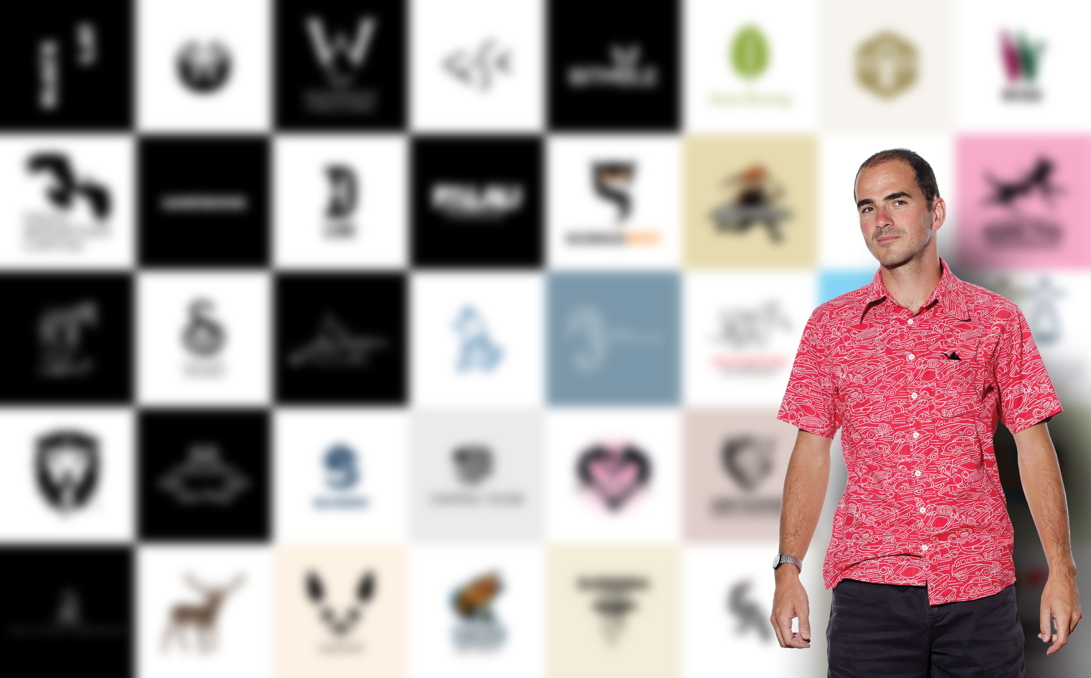 Peter Vasvári designer graphic artist – "The concept of negative space in logo design" exhibition in Göd.